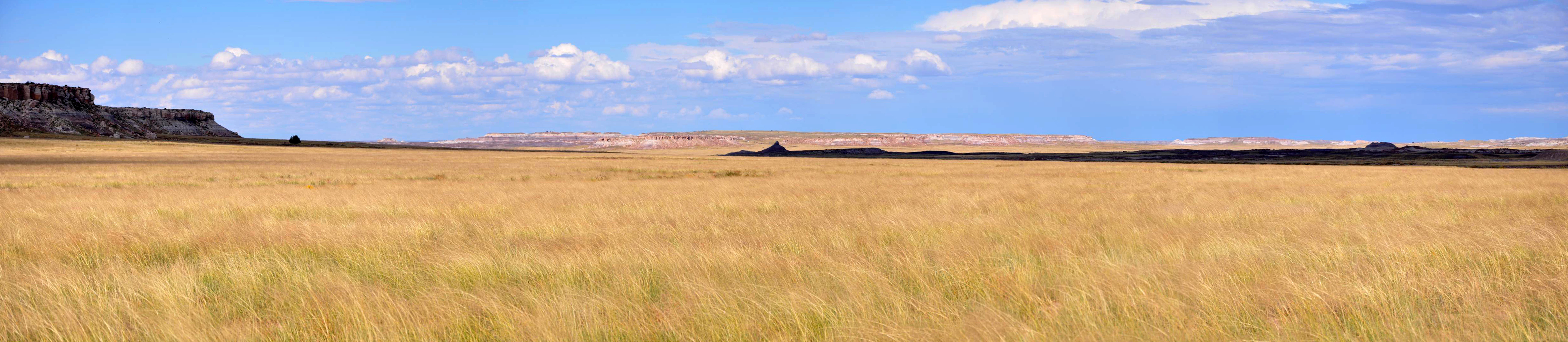 Panorama of shortgrass prairie in Petrified Forest National Park. The park is in northeastern Arizona in the United States. View is to the east from near the main park road slightly north of Dry Wash. The dark area on the ground to the right is a cloud shadow. Originally eight horizontal images. This panoramic image was created with Autostitch. Stitched images may differ from reality.